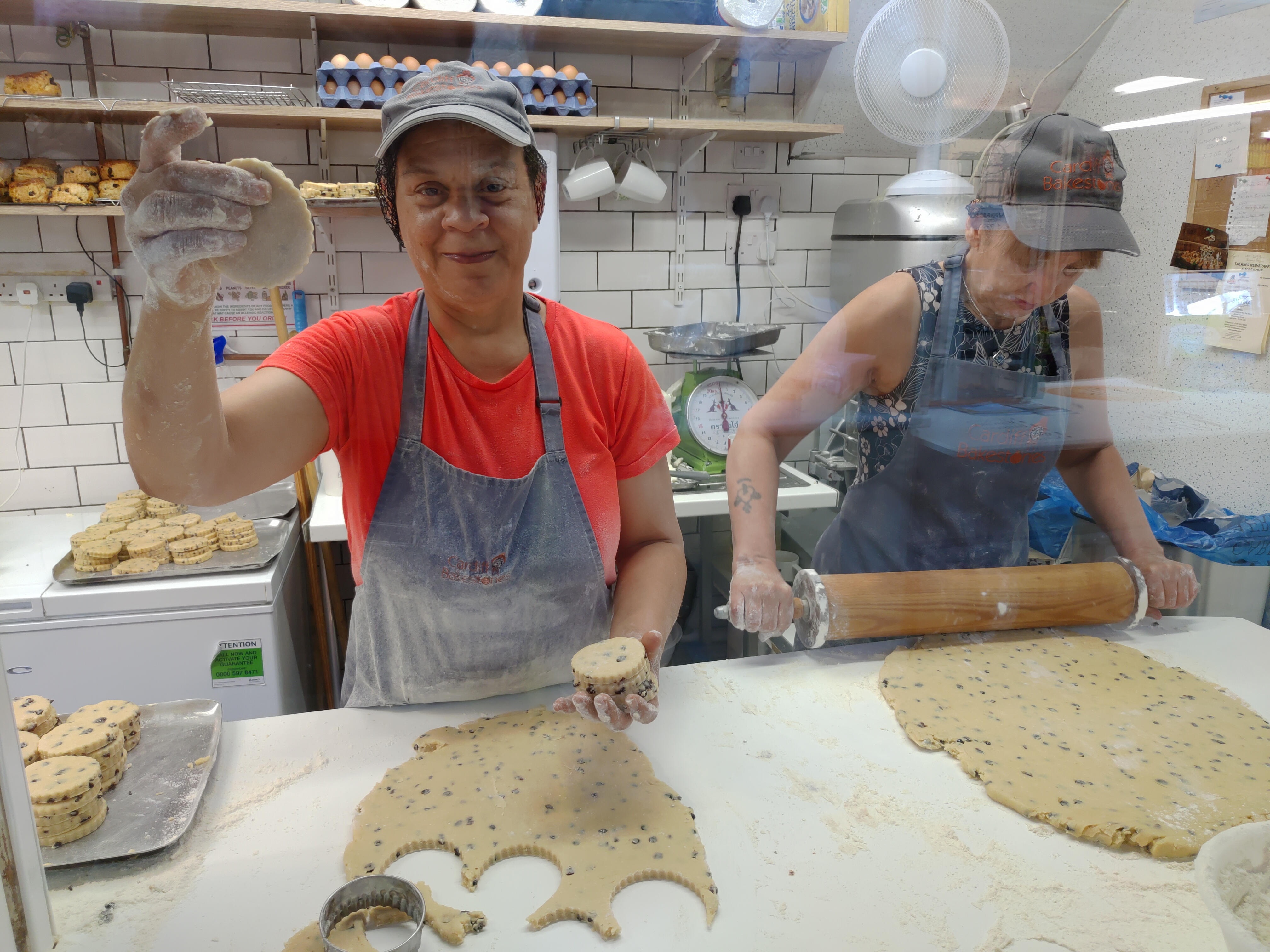 Personality rights warningAlthough this work is freely licensed or in the public domain, the person(s) shown may have rights that legally restrict certain re-uses unless those depicted consent to such uses. In these cases, a model release or other evidence of consent could protect you from infringement claims.